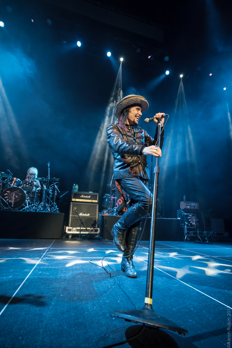 Adam Ant at The Masonic Theater in San Francisco 2017.